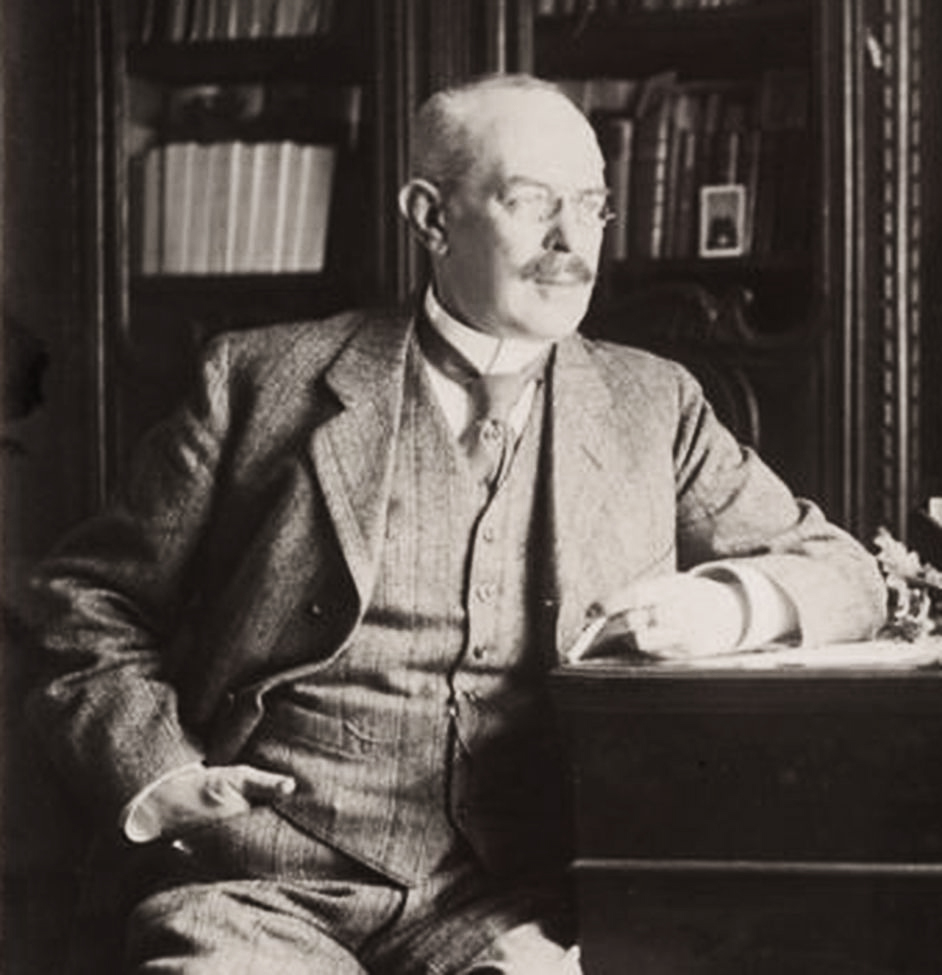 French playwright Robert Charvay (1858-1925) circa 1910